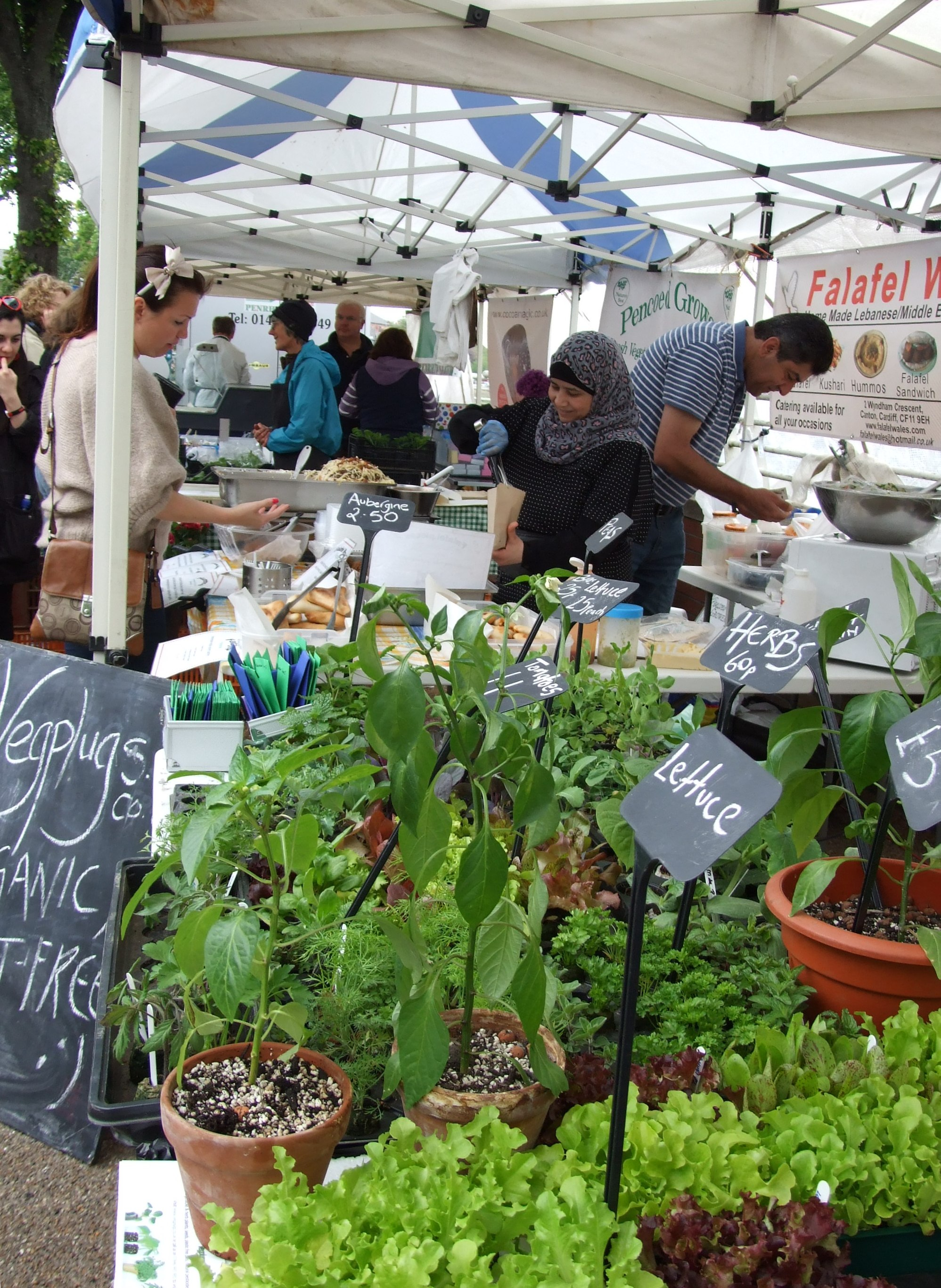 Riverside Farmers Market, Riverside, Cardiff, Wales. Previously known as the Riverside Real Food Market, when it started in November 1998.